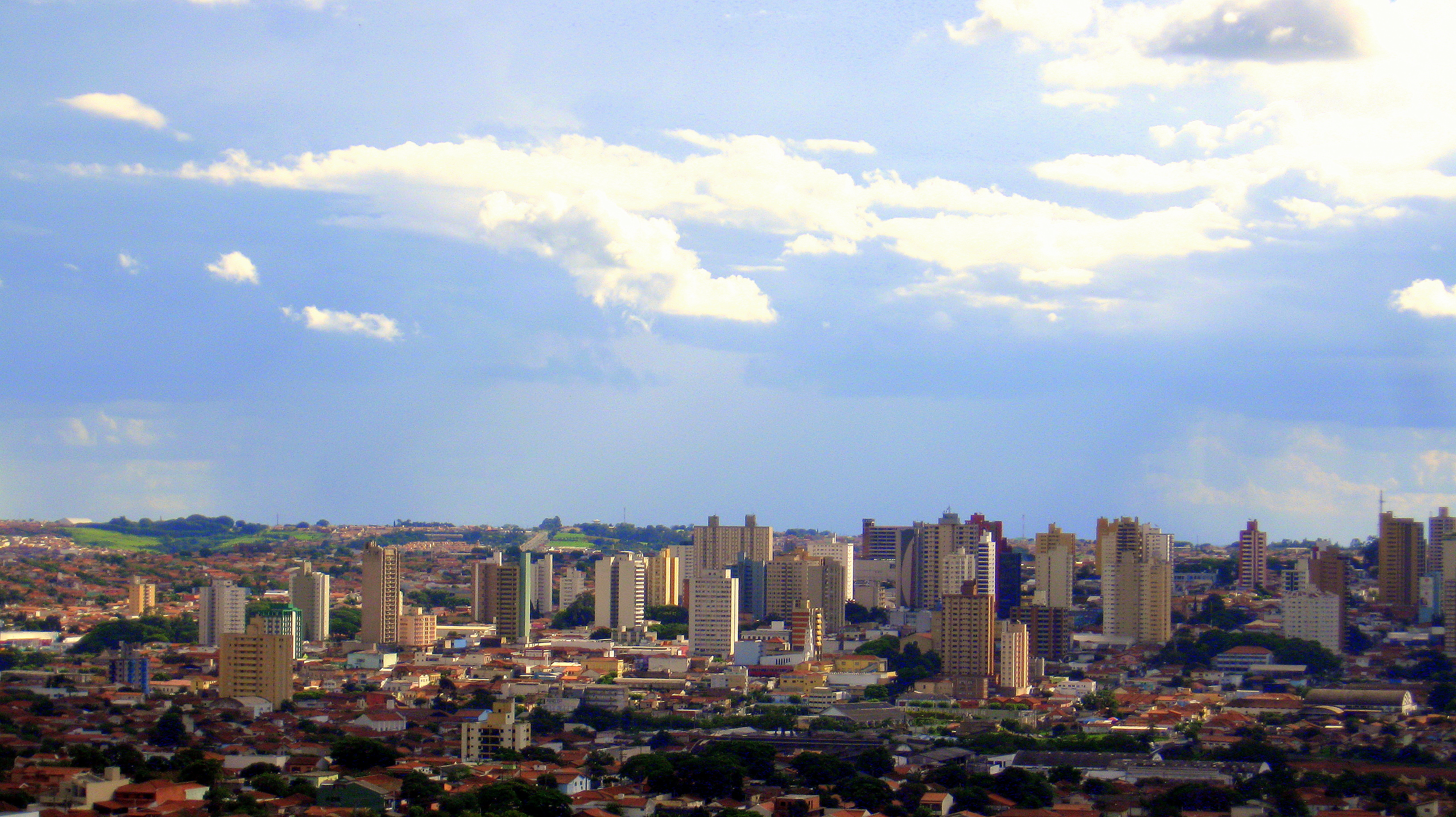 Limeira's downtown as seen from Jardim Planalto neighborhood.